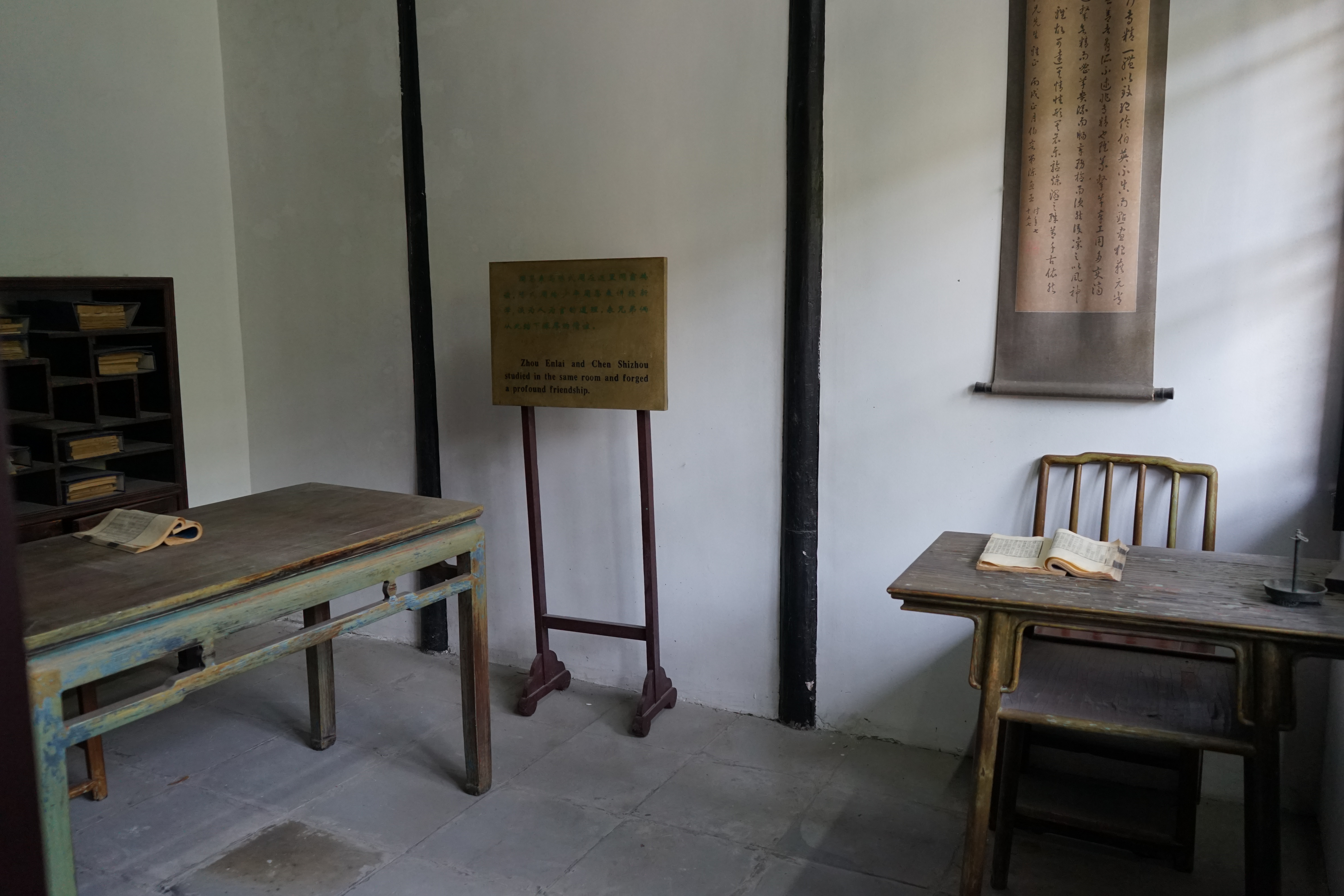 Zhou Enlai and Chen Shizhou studied here.